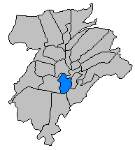 Map of Luxembourg City, Luxembourg, with the boundaries of the city's twenty-four quarters demarcated and the quarter of Gare highlighted in blue.